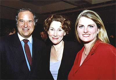 Randy Graff (seen here in the middle) on opening night of Fiddler on the Roof (2004)